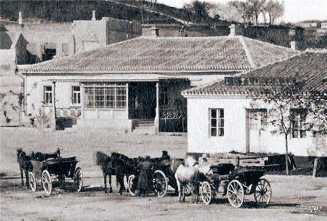 Catherine Palace, Sevastopol